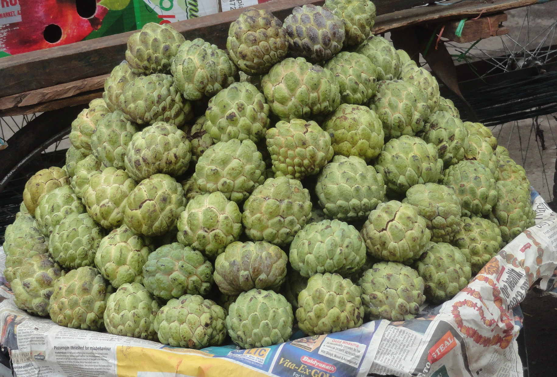 Custer apples.